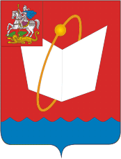 Fryazino (Moscow oblast), coat of arms